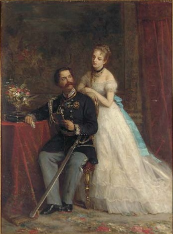 Crown Prince Umberto of Italy (future King Umberto I) with his wife Princess Margherita of Savoy